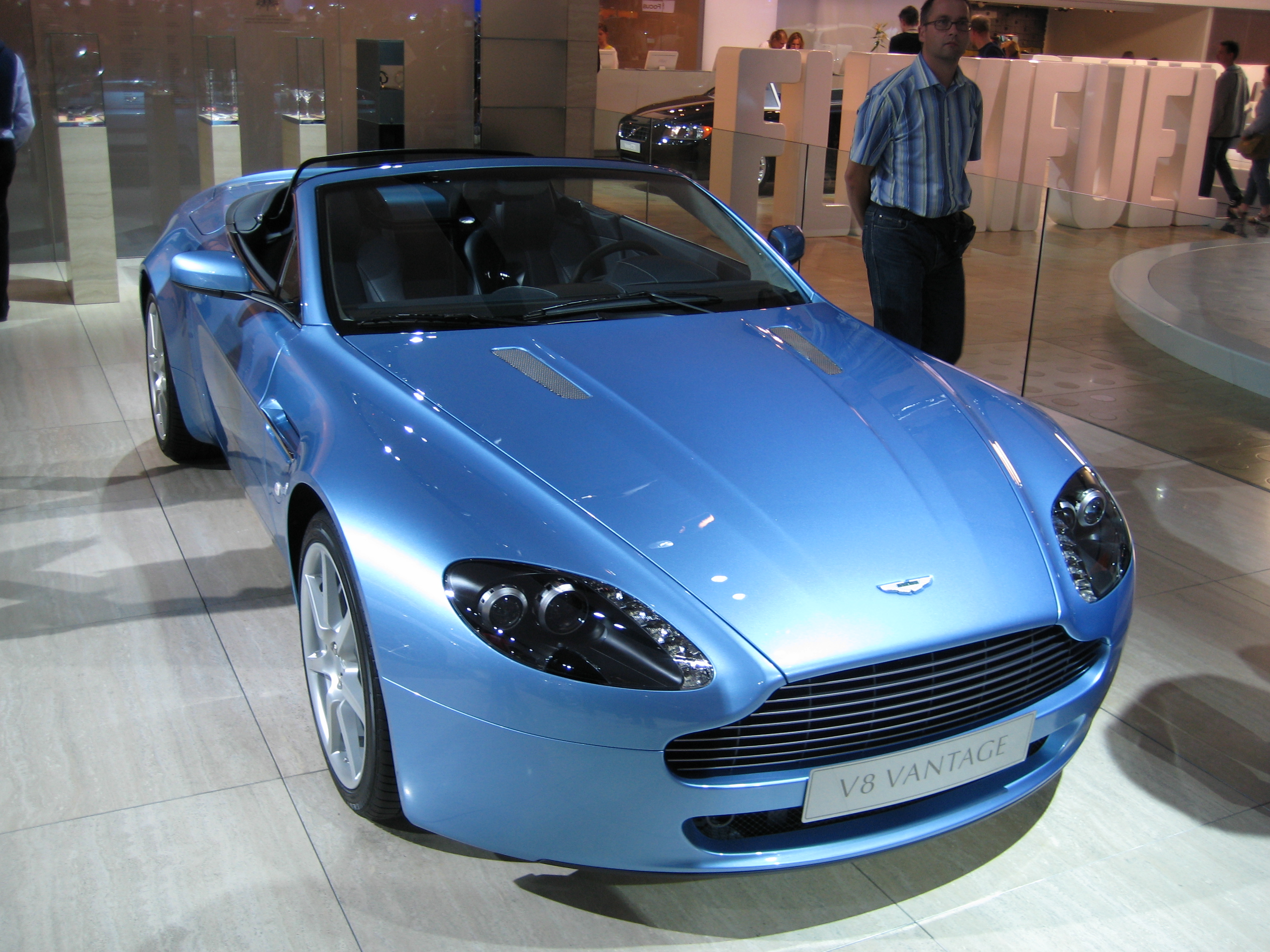 Aston Martin V8 Vantage (2007)